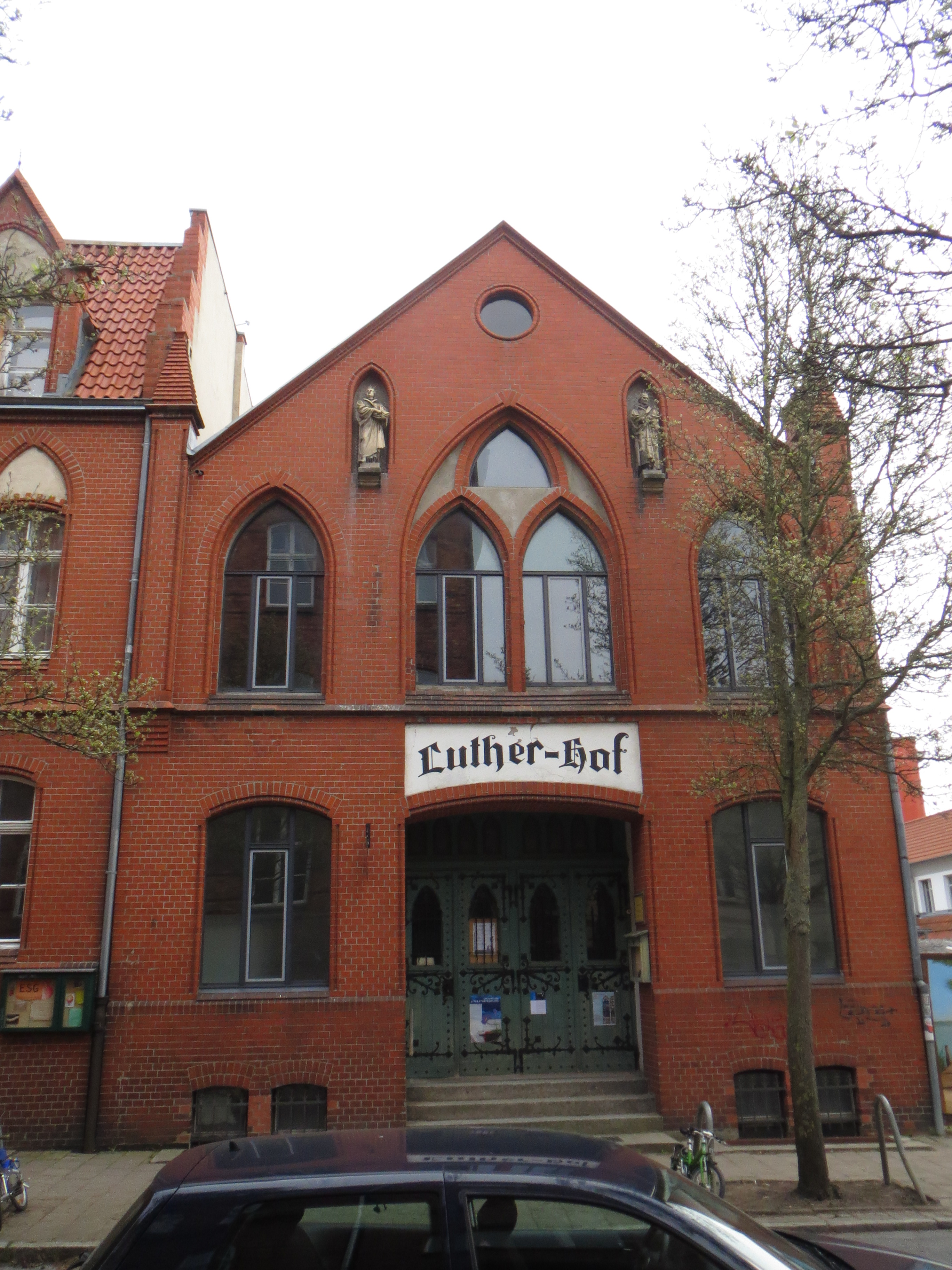 Lutherhof, Martin-Luther-Str. 8, Greifswald